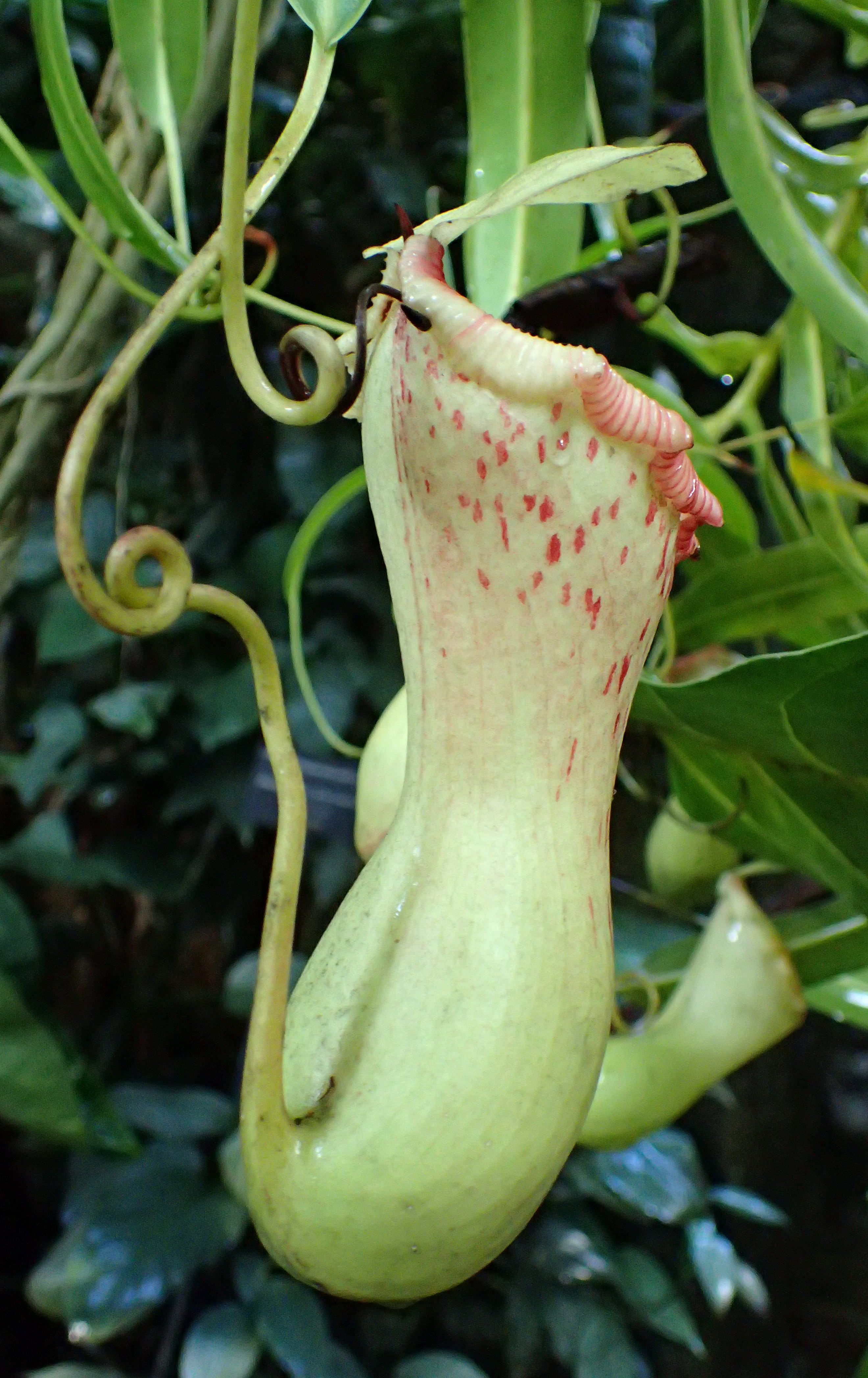 Nepenthes burkei in Boltz Conservatory, Madison, Wi